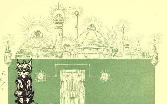 Toto at the Emerald City, from the Wonderful Wizard of Oz first edition